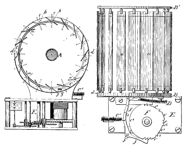 Detail of specification forming part of Letters Pattent No. 188,700, dated March 20, 1877 (Otter device for lighthouses)